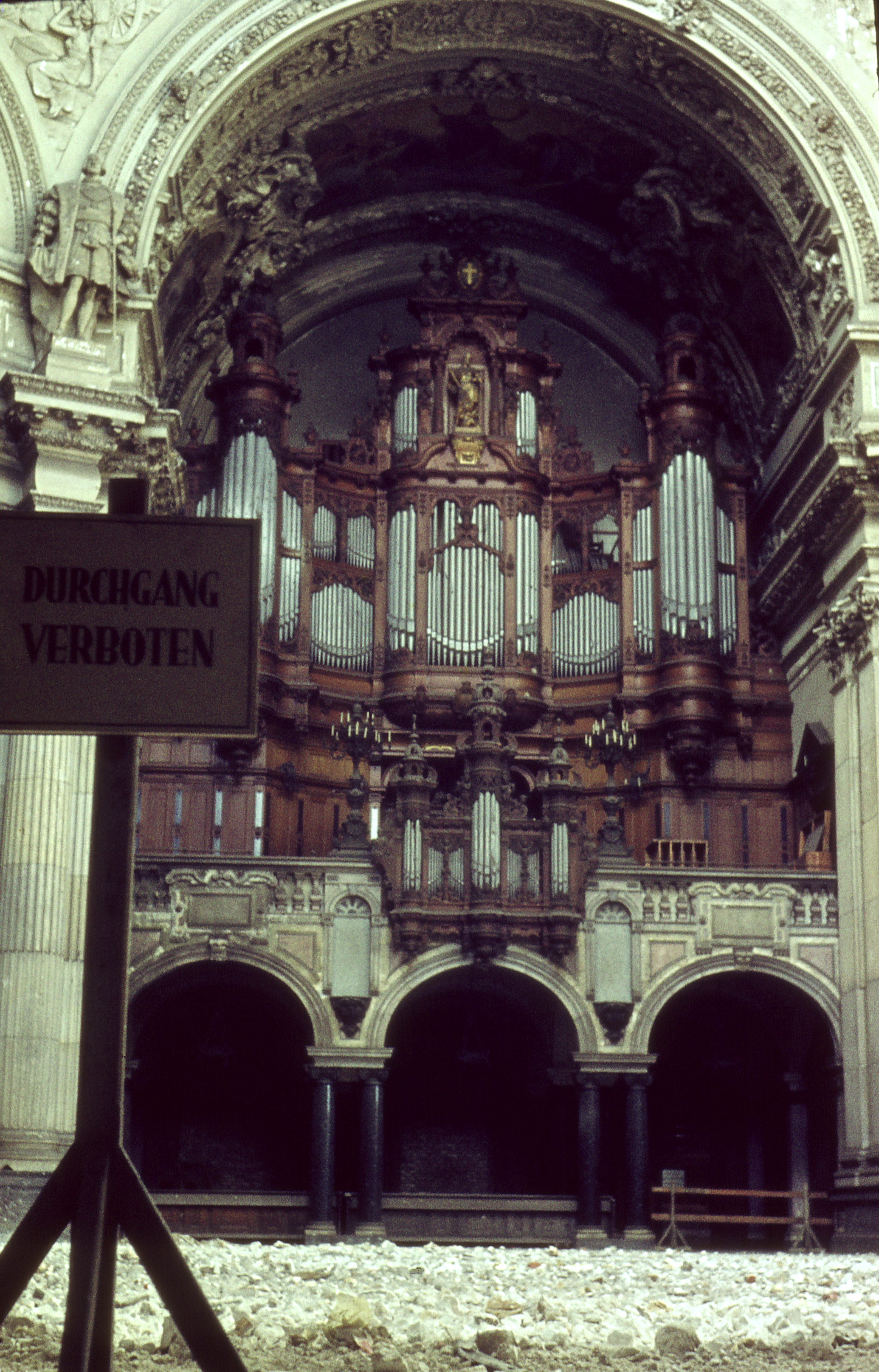 The organ of the Berliner Dom in 1964, as the the building was not reconstructed.